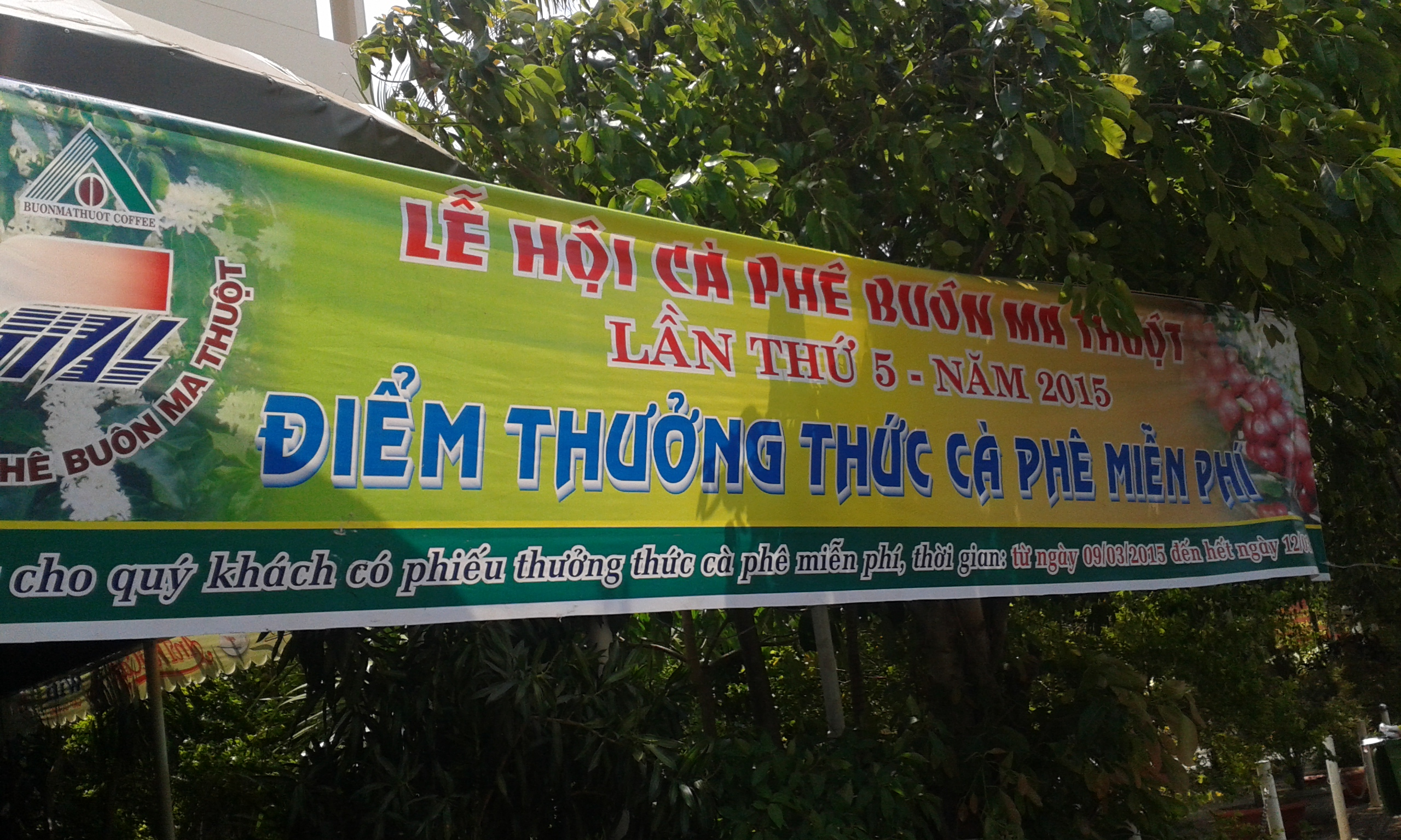 Bang ron